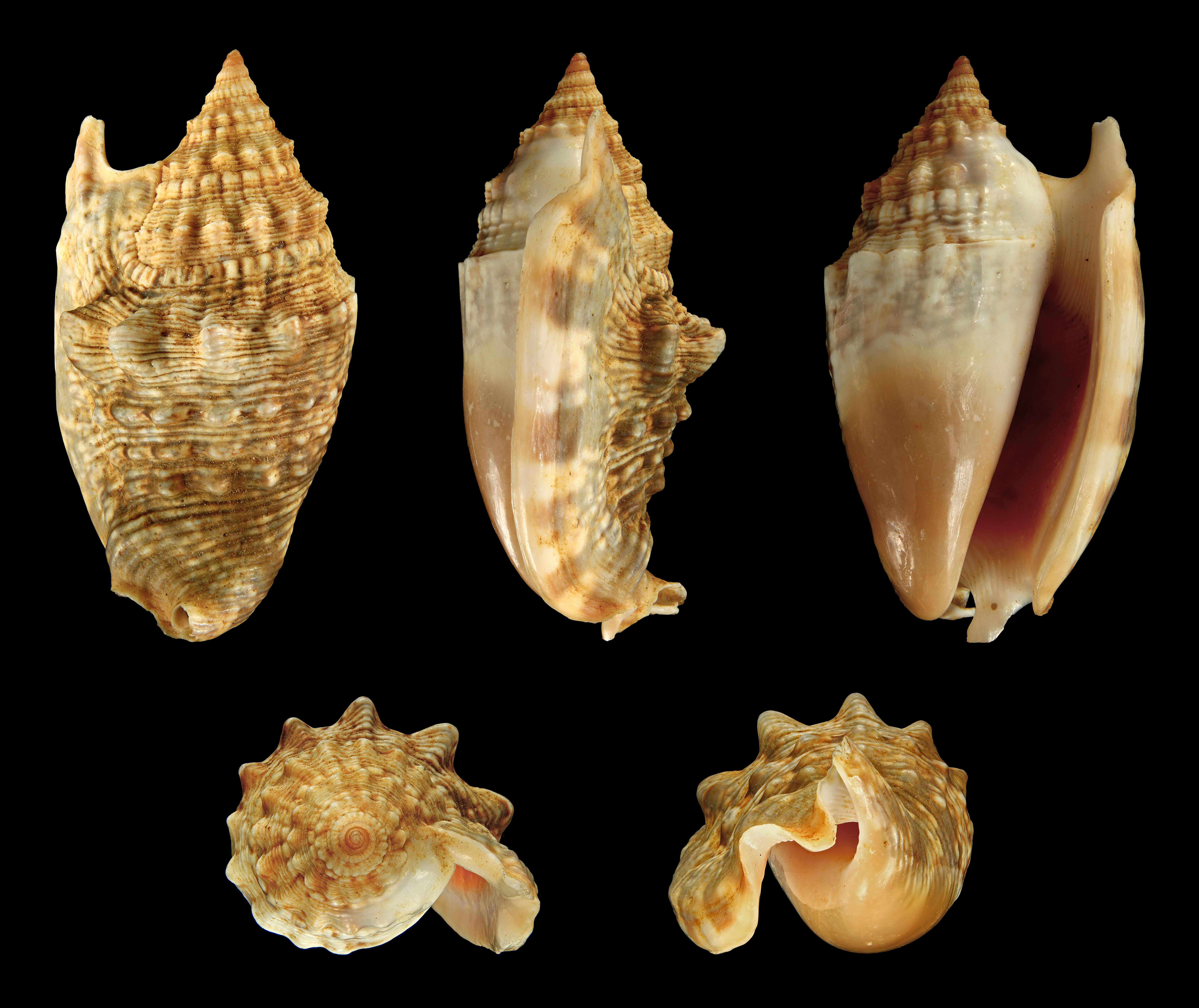 Diana's Ear, Length: 7 cm; Originating from the Indo-Pacific; Shell of own collection, therefore not geocoded.